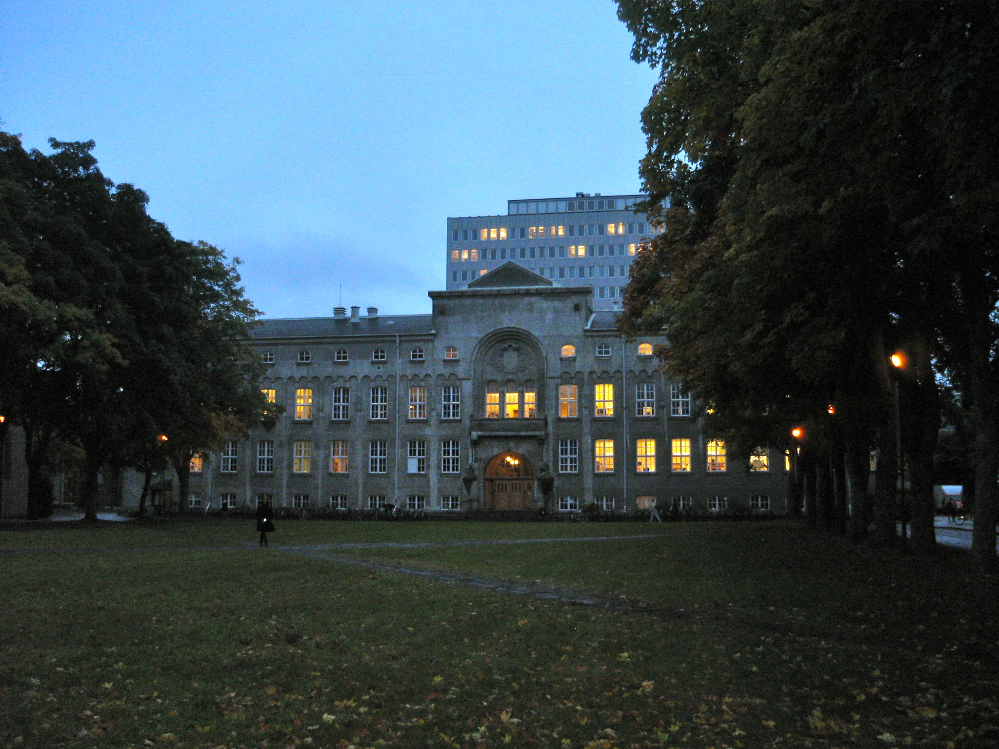 The first Chemistry building, erected 1910, at Campus NTNU Gløshaugen, Trondheim. Architect: Bredo Greve